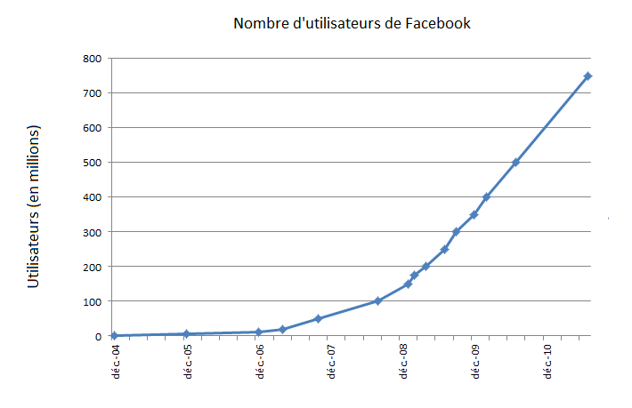 Evolution of the number of Facebook users. Data comes from Facebook's press room: [2].